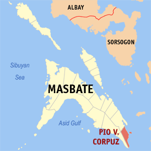 Map of Masbate showing the location of Pio V. Corpuz